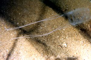 Carybdea marsupialis, Tyrrhenian Sea (Mediterranean), Italy